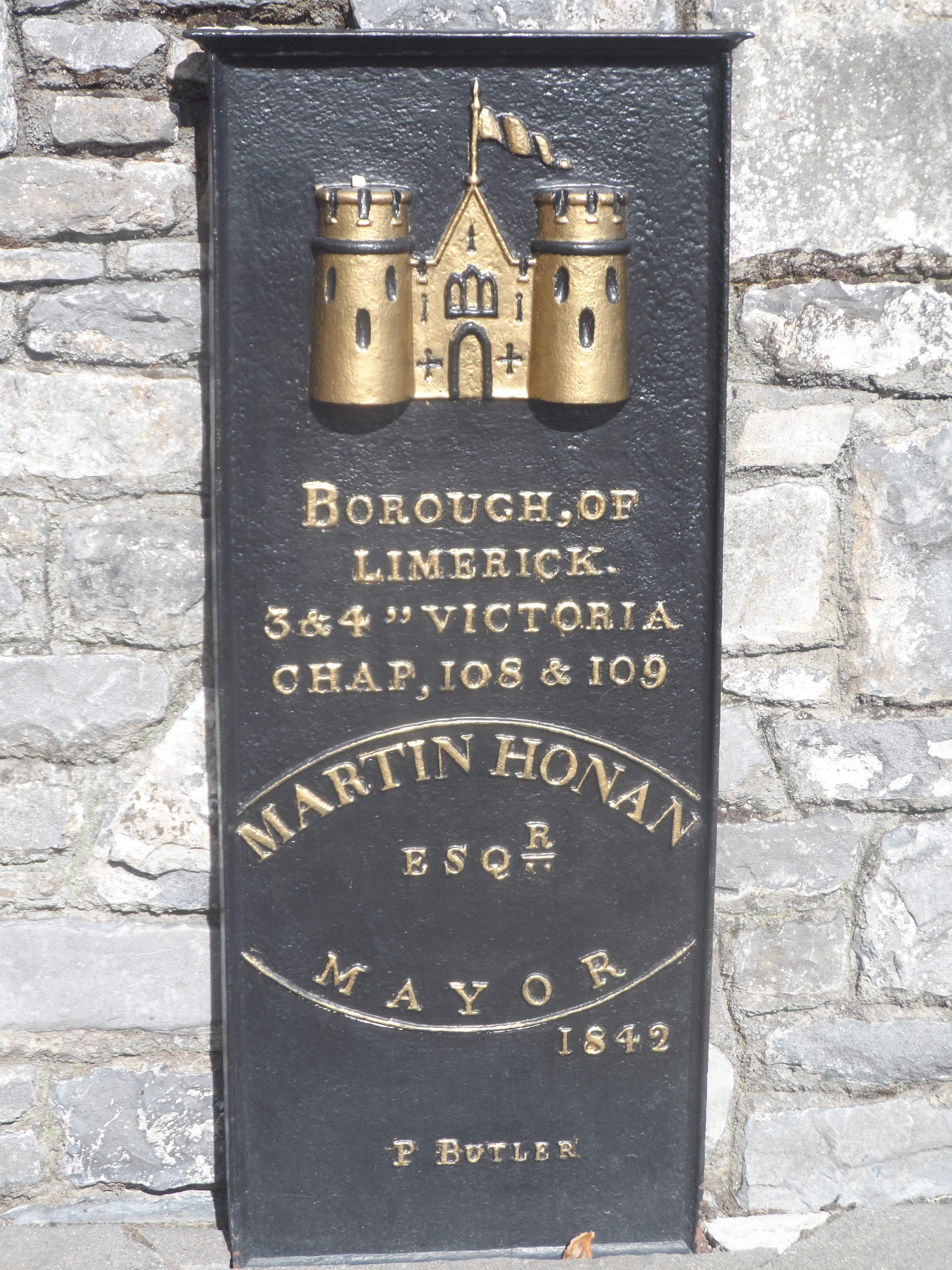 Borough of Limerick plaque